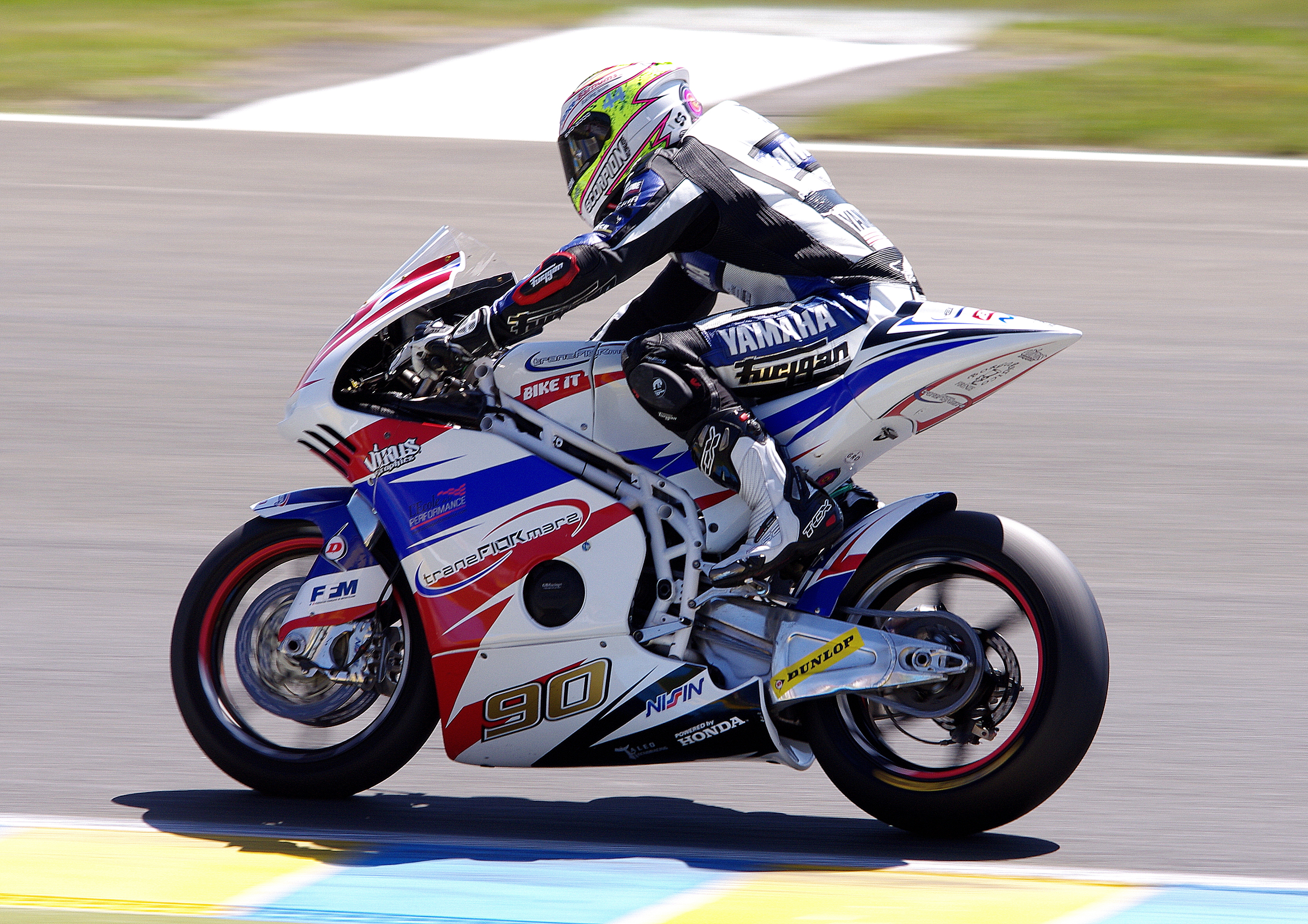 Lucas MAHIAS - Promoto Sport - Moto2 2014 - Le Mans 2014 french motorcycle Grand Prix at Le Mans Bugatti Circuit